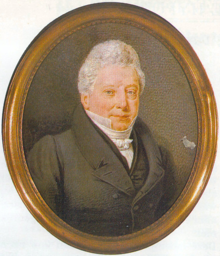 Dutch politician Cornelis Felix van Maanen